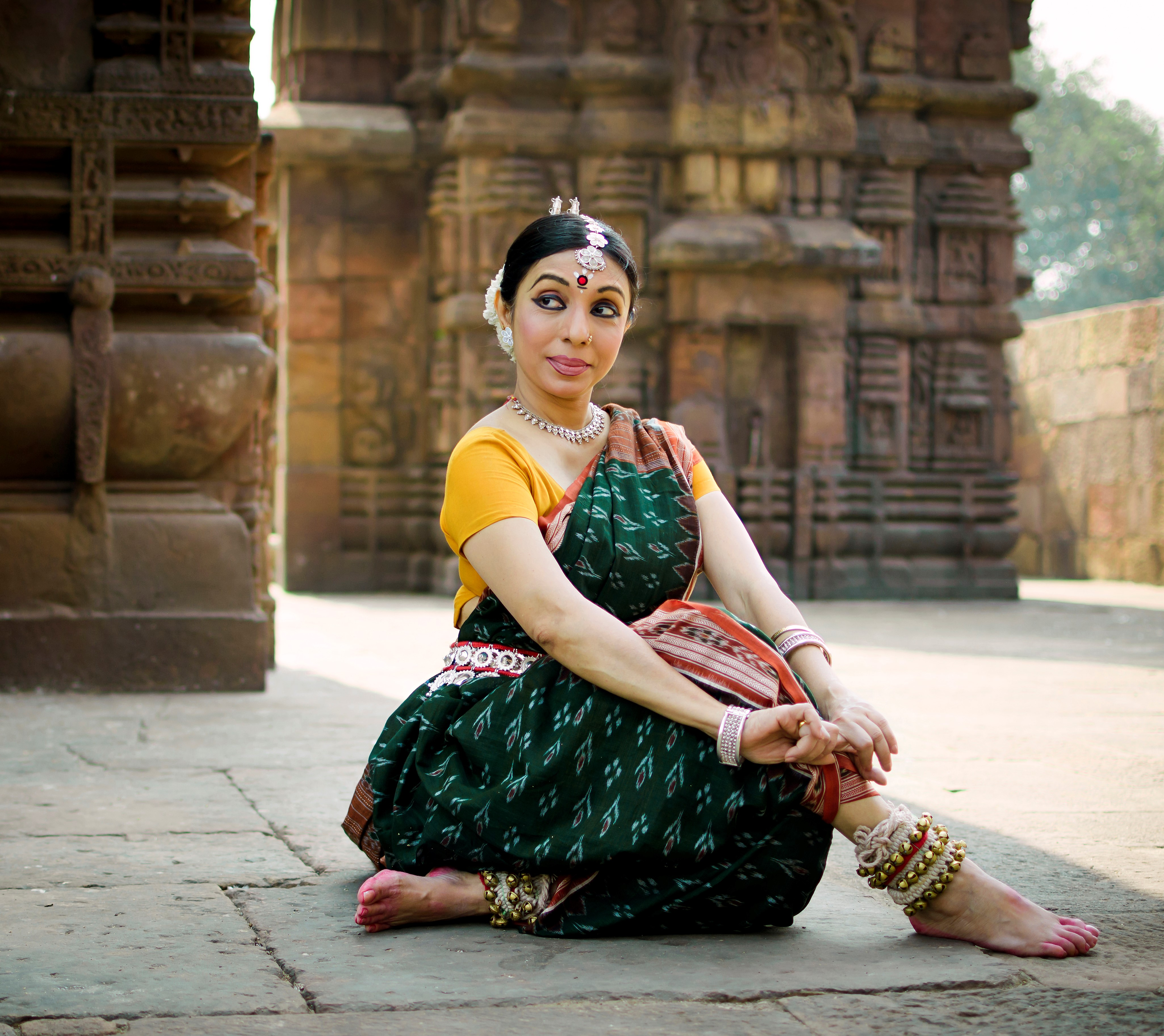 Odissi photoshoot